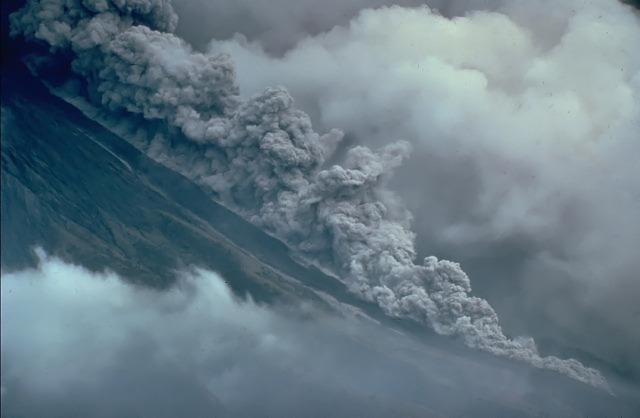 Small pyroclastic flow at Mayon volcano in the Philippines on September 23, 1984.